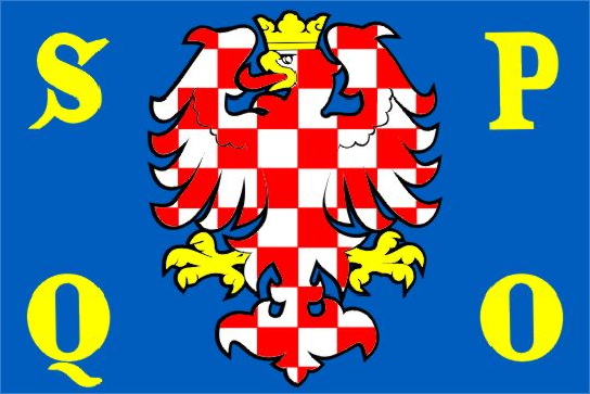 Flag of Olomouc, city in the Czech Republic